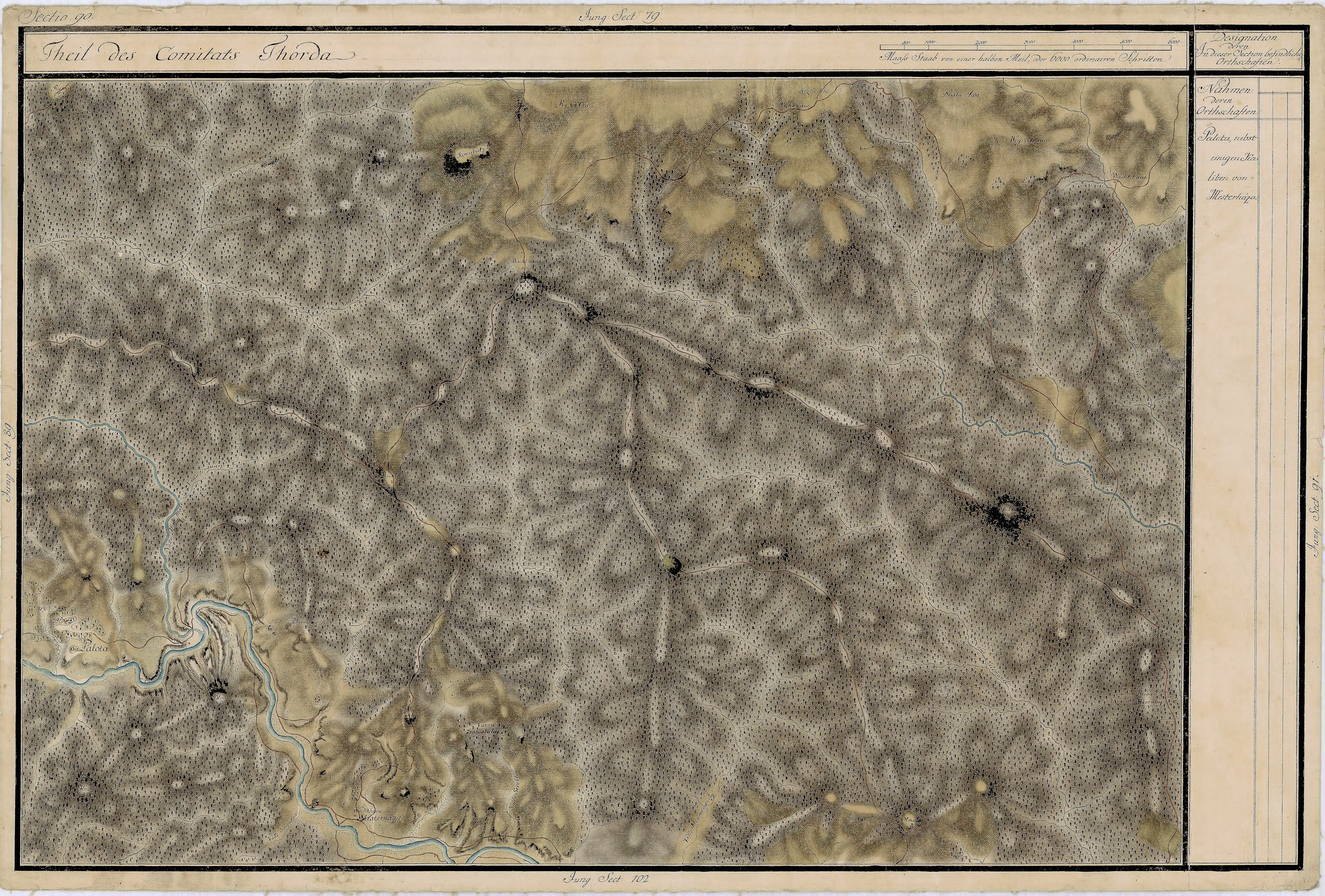 Grand Duchy of Transylvania, 1769-1773. Josephinische Landaufnahme pg.090